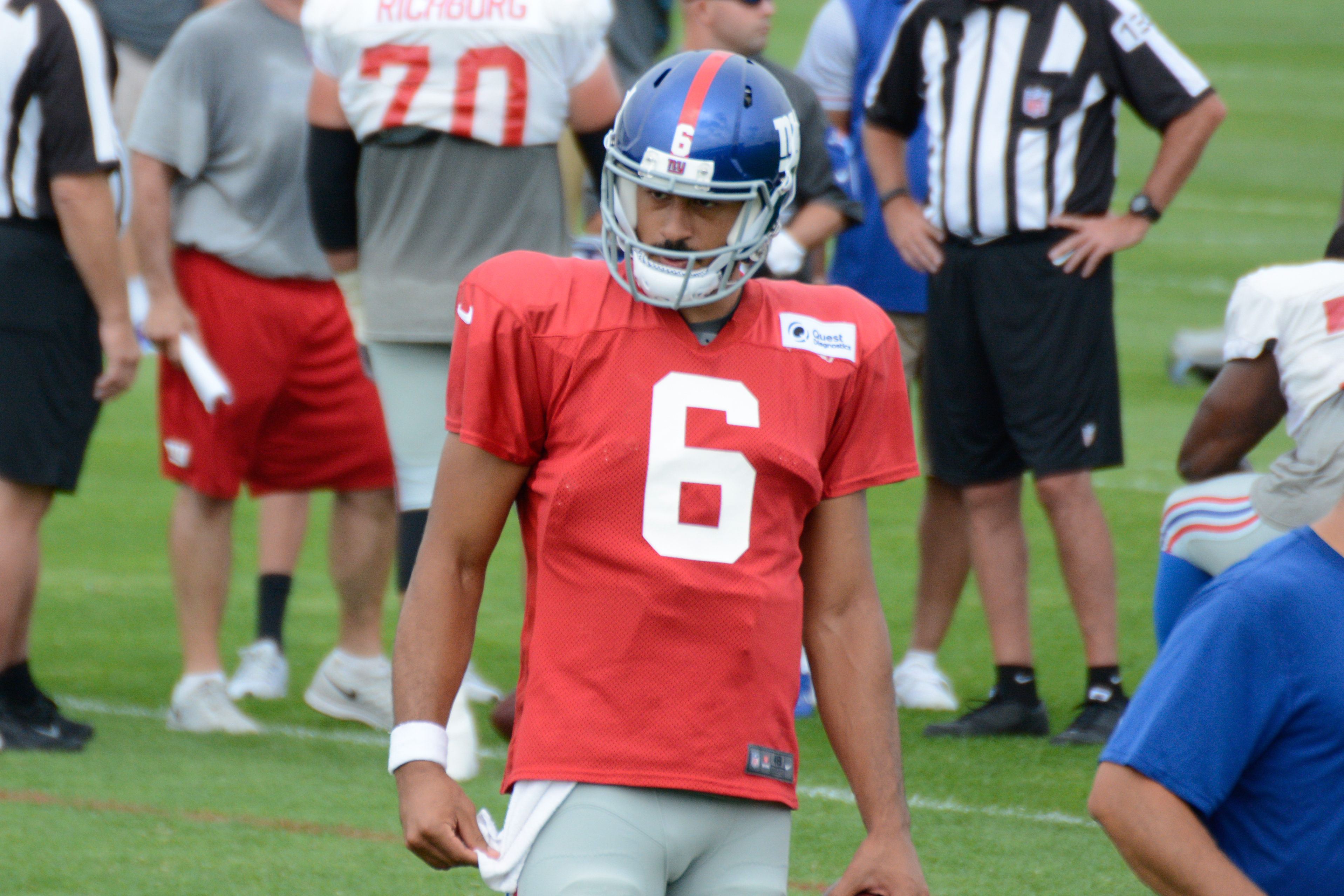 New York Giants training camp